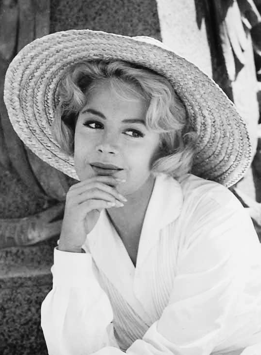 Sandra Dee in Romanoff and Juliet (1961); publicity headshot.